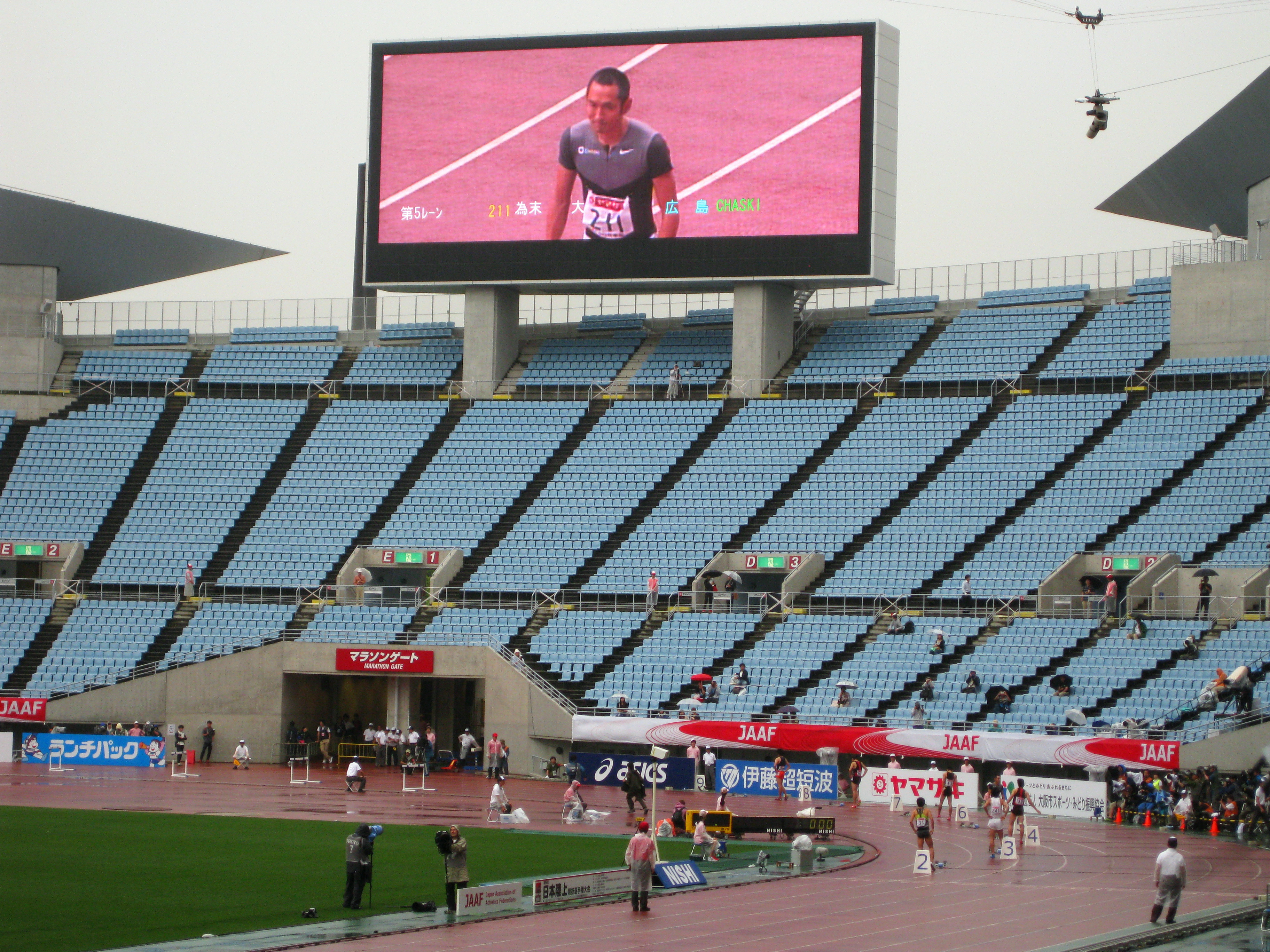 M 400 metres hurdles heat 2 at the 96th Japan Championships in Athletics - This photo was taken on 8 June, 2012 at Nagai Stadium, Osaka. It was unfortunately raining. Dai Tamesue, called "Samurai" - world 400 metres hurdles bronze medalist, placed 7th in the heat race, and failed to reach the final. He had resolved to retire by the end of this season before this competition. Thanks Samurai.